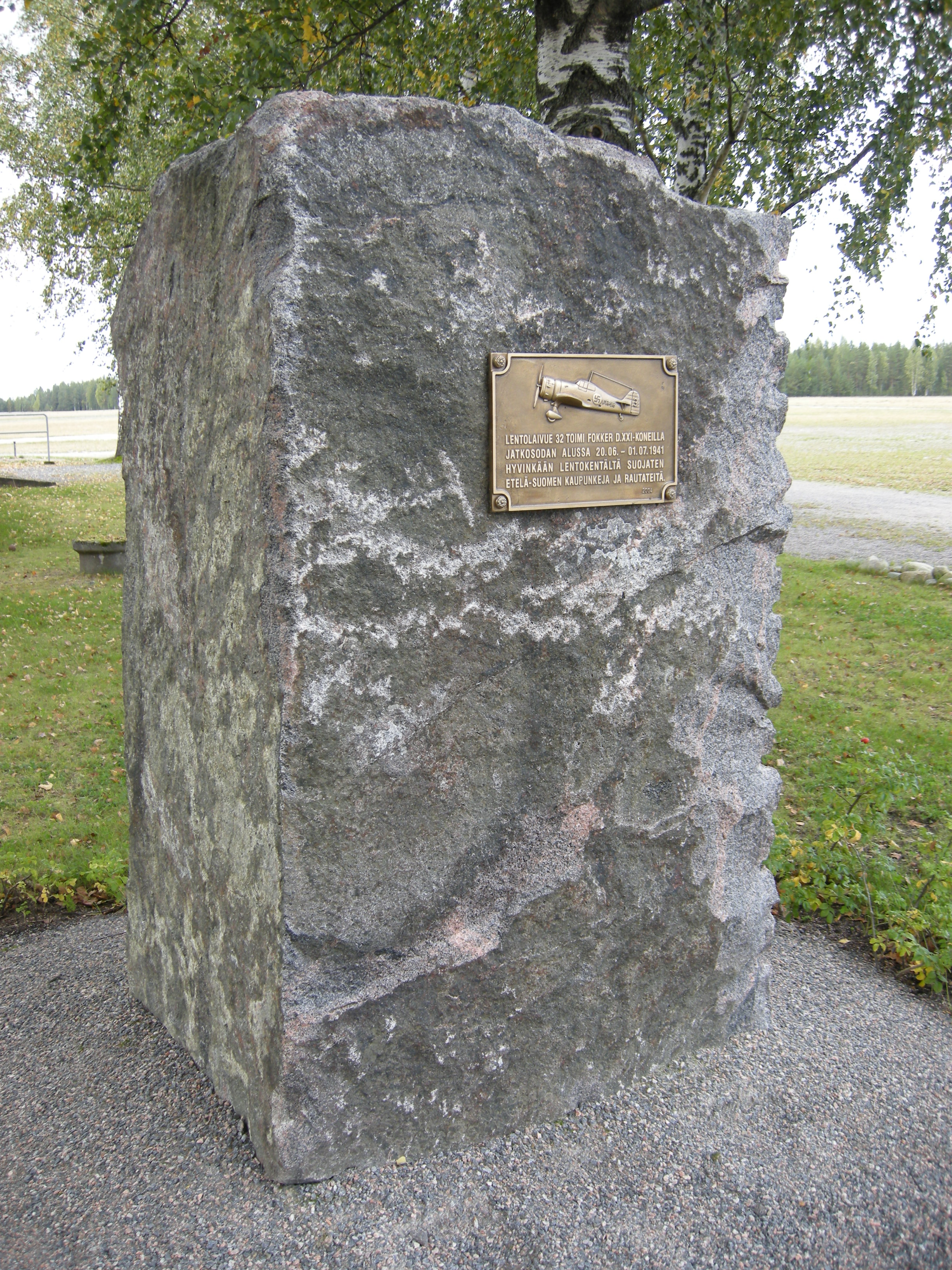 Memorial of the Air squadron 32 at Hyvinkää Airfield (EFHV) in Hyvinkää, Finland.